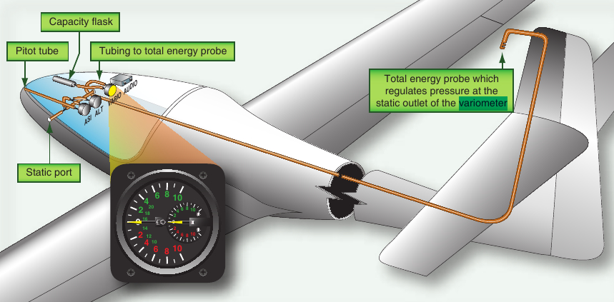 TE variometer schematics